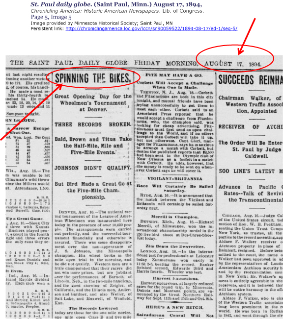 Example of the word "spinning" being coined with the cycling sport from the year 1894.